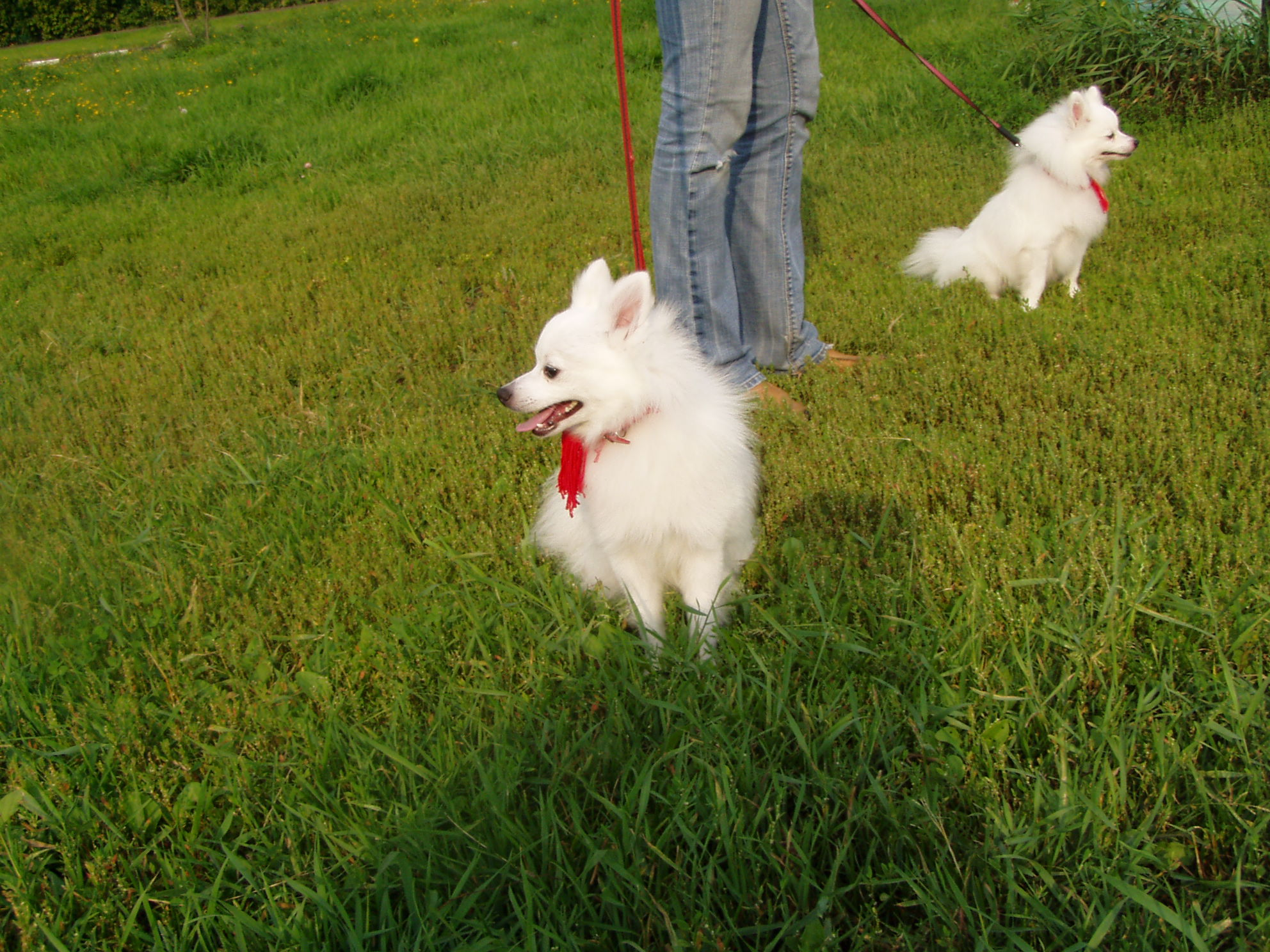 volpino italiano on sunset